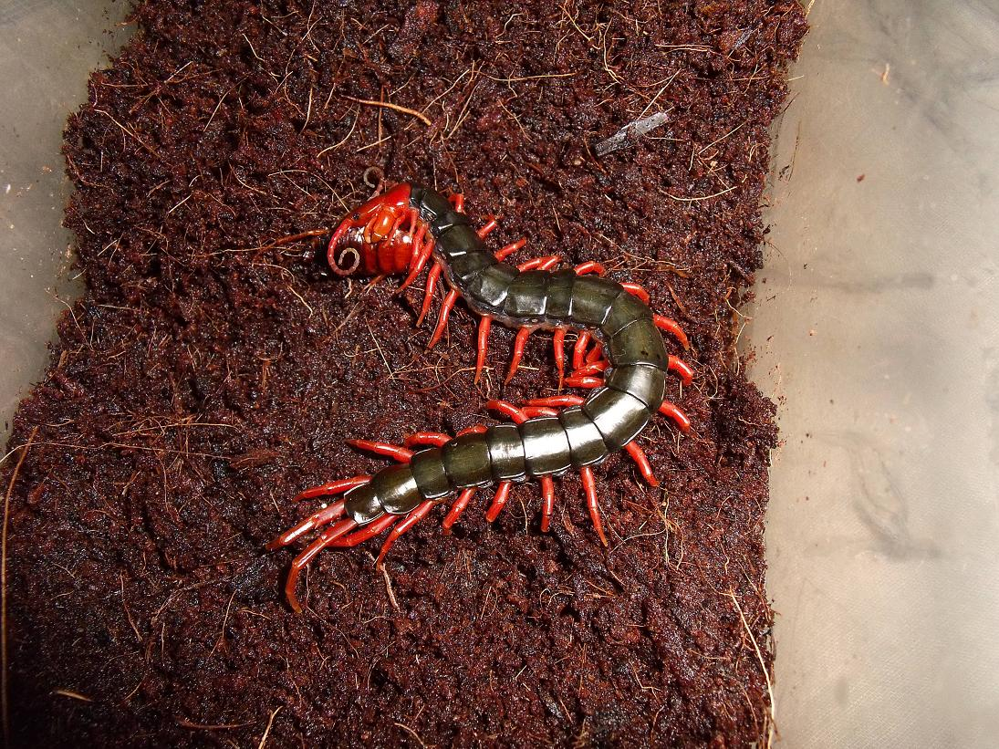 Scolopendra subspinipes mutilans The Chinese Red-headed Centipede. Individuals from Japan. Length of the captive population of about 12cm. That cockroach prey. This individual is an orange head and legs.